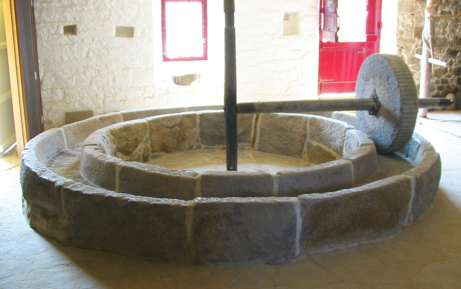 Circular horse-drawn apple crusher (tou d'preinseu) at The Elms, Jersey - a property of the National Trust for Jersey. Apples are placed in the circular trough, the stone crushes the apples and the pulp is then placed in the cider press to produce apple juice as part of the production of cider.